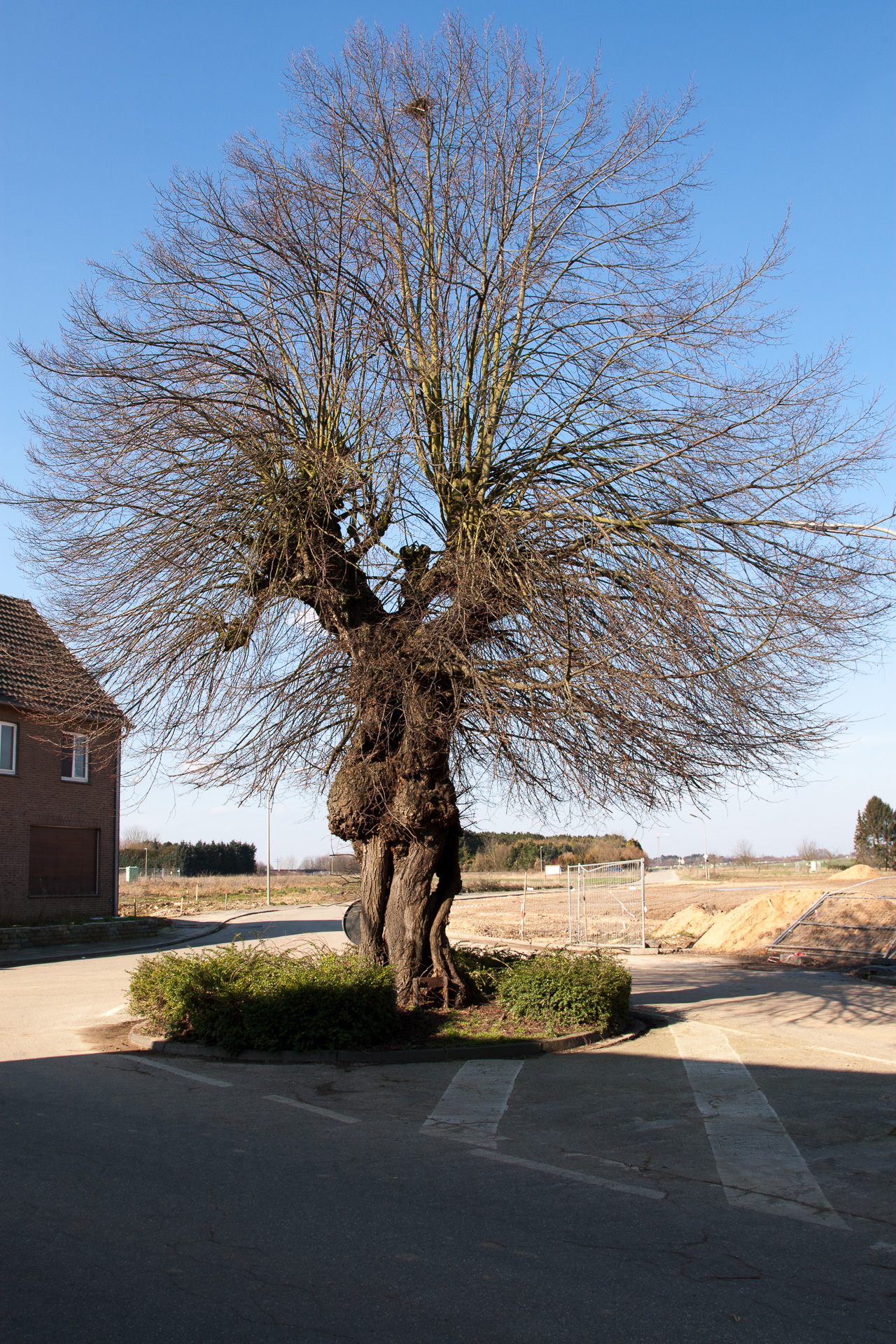 tree in Borschemich, on 27 February 2016.